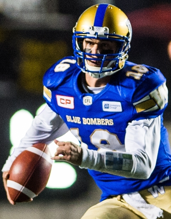 Bryan Bennett (18) of the Winnipeg Blue Bombers and Jonathan Rose (34) of the Ottawa REDBLACKS during the pre-season game at TD Place in Ottawa, ON on Monday June 13, 2016. (Photo: Johany Jutras)